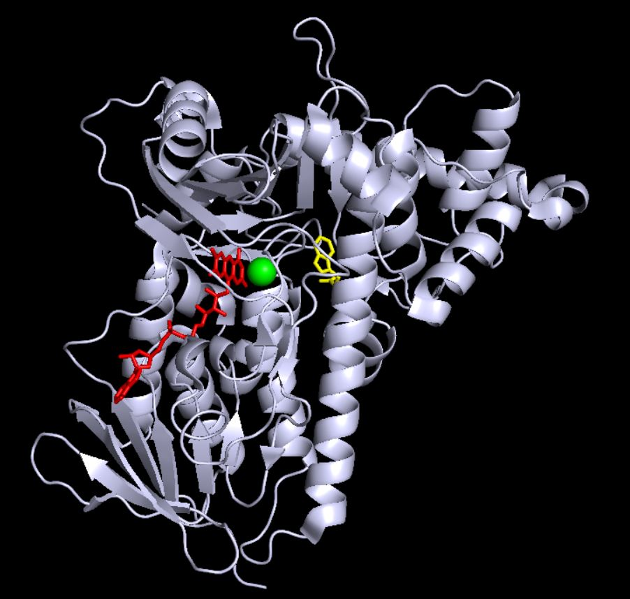 Illustration of FAD, Cl-, and W in PrnA